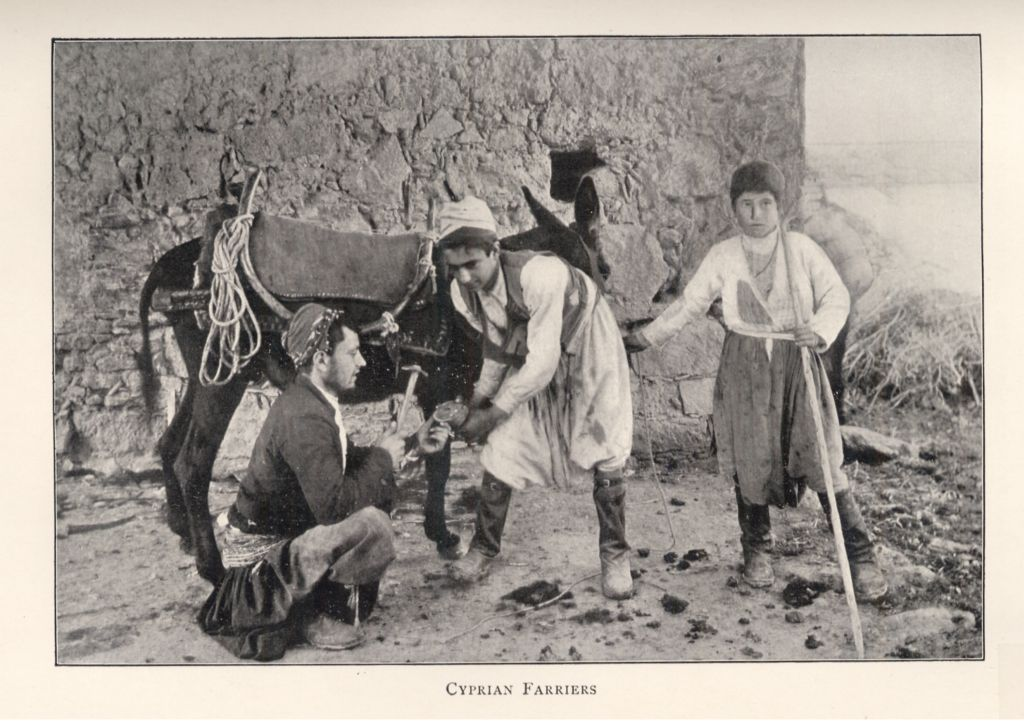 Two men shoeing a donkey. Black-and-white photograph.